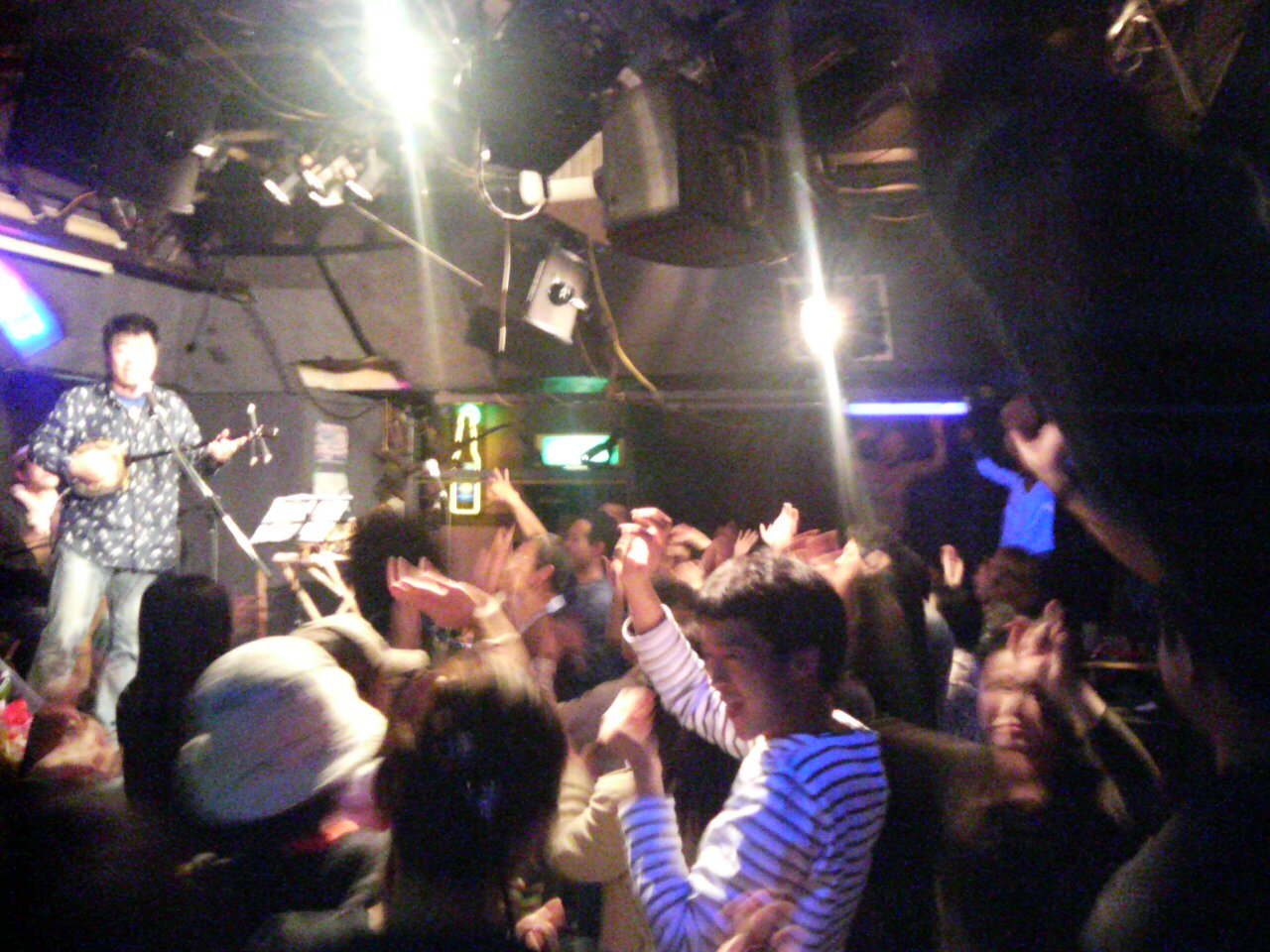 This photo is about Kachāshī, a kind of dance often perfomed in Okinawa Islands, southern part of Japan. Taken on 4th of March, 2007 and at SHINJUKU LOFT PLUS 1, a livehouse in Shinjuku in Tokyo, Japan.